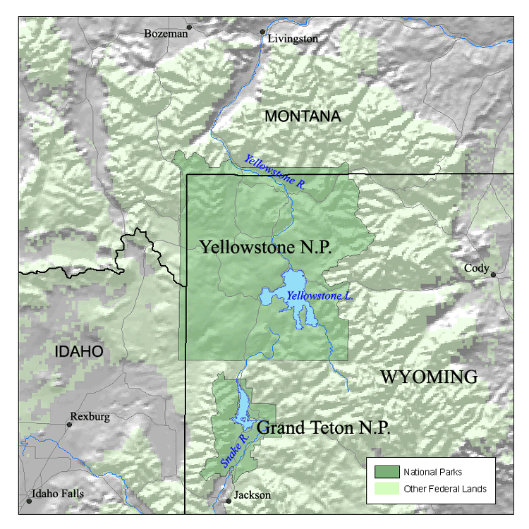 This is a map of the area around Yellowstone National Park. I, Karl Musser, created it based on USGS data.